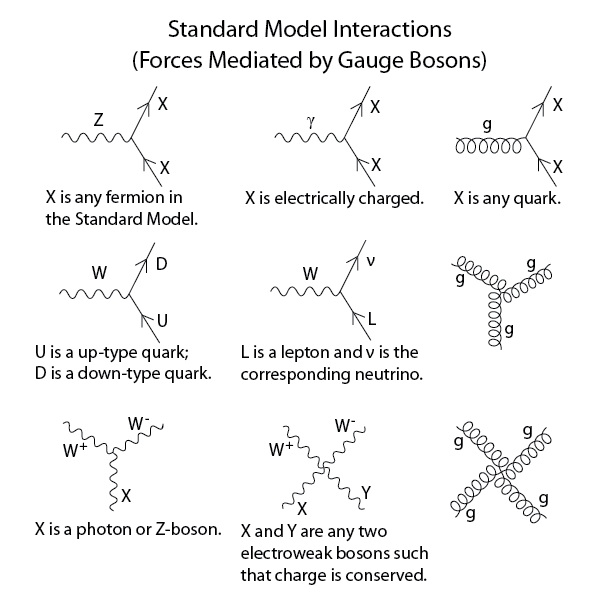 A list of the vertices that appear in Standard Model Feynman Diagrams. Higgs Boson interactions and neutrino oscillations are omitted. Feynman rule values of the vertices are also omitted.